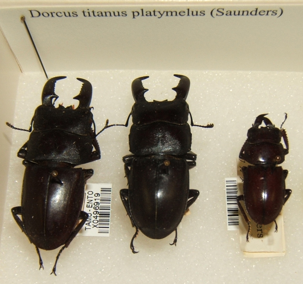 Dorcus titanus platymelus adult taken by Shawn Hanrahan at the Texas A&M University Insect Collection in College Station, Texas.